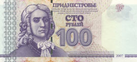 100 Transnistrian rubles